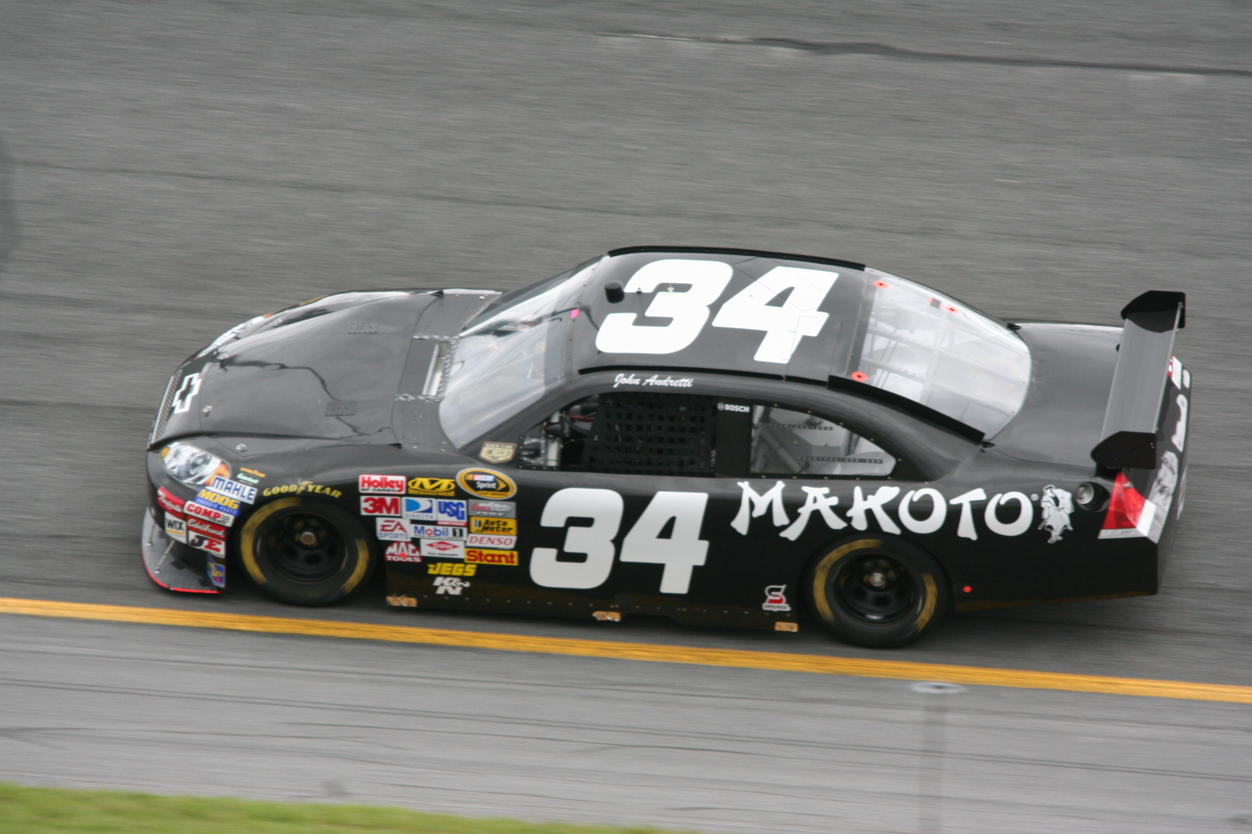 Shot by The Daredevil at Daytona during Speedweeks 2008John Andretti Makoto Chevy Impala